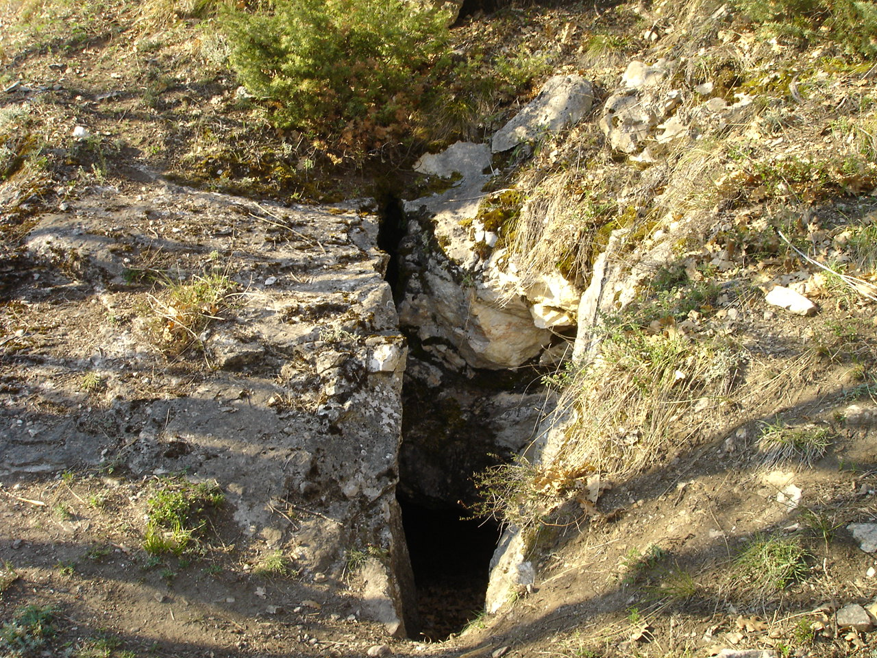 Hristijanova cave, Macedonia